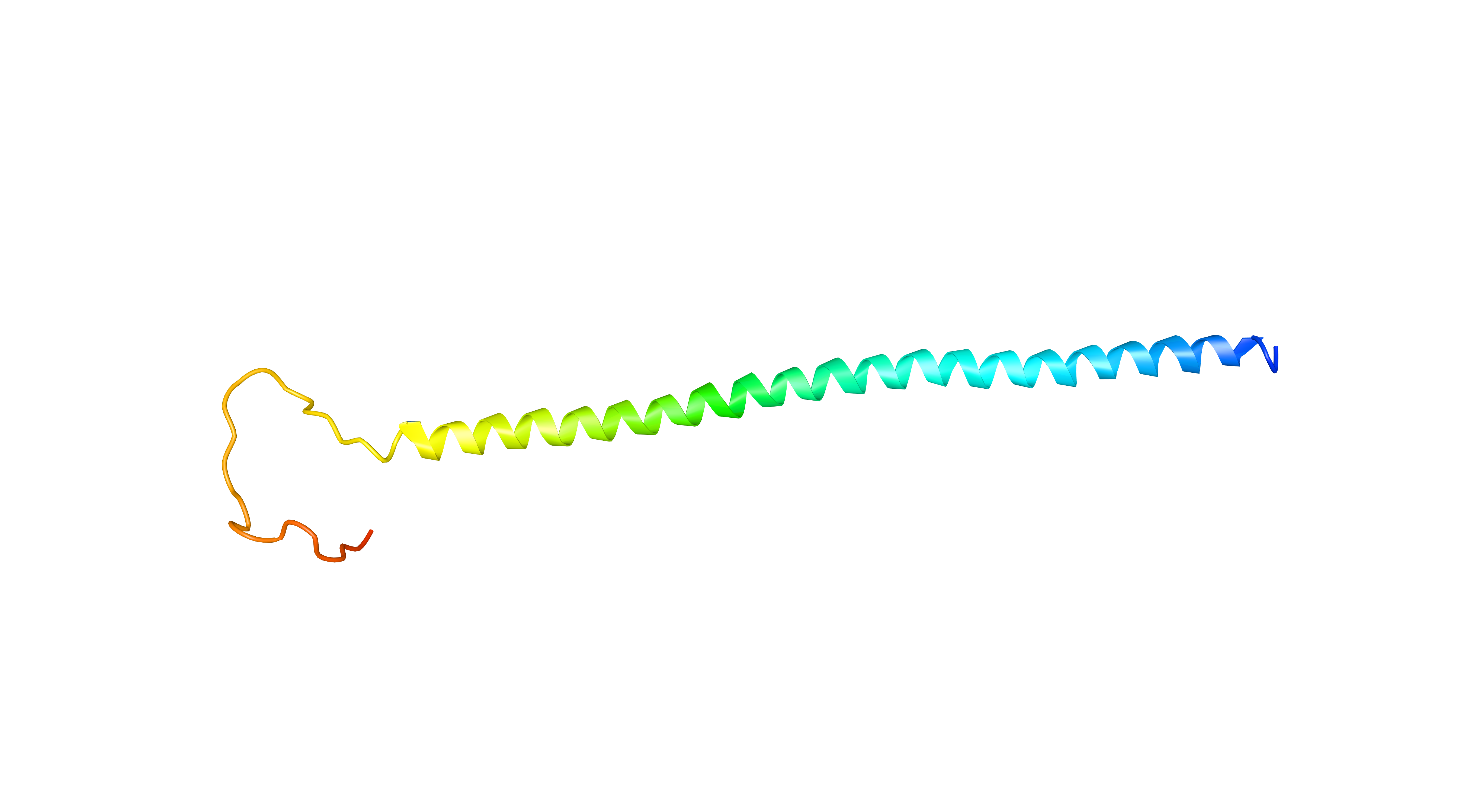 Predicted structure of C13orf38 using Phyre2